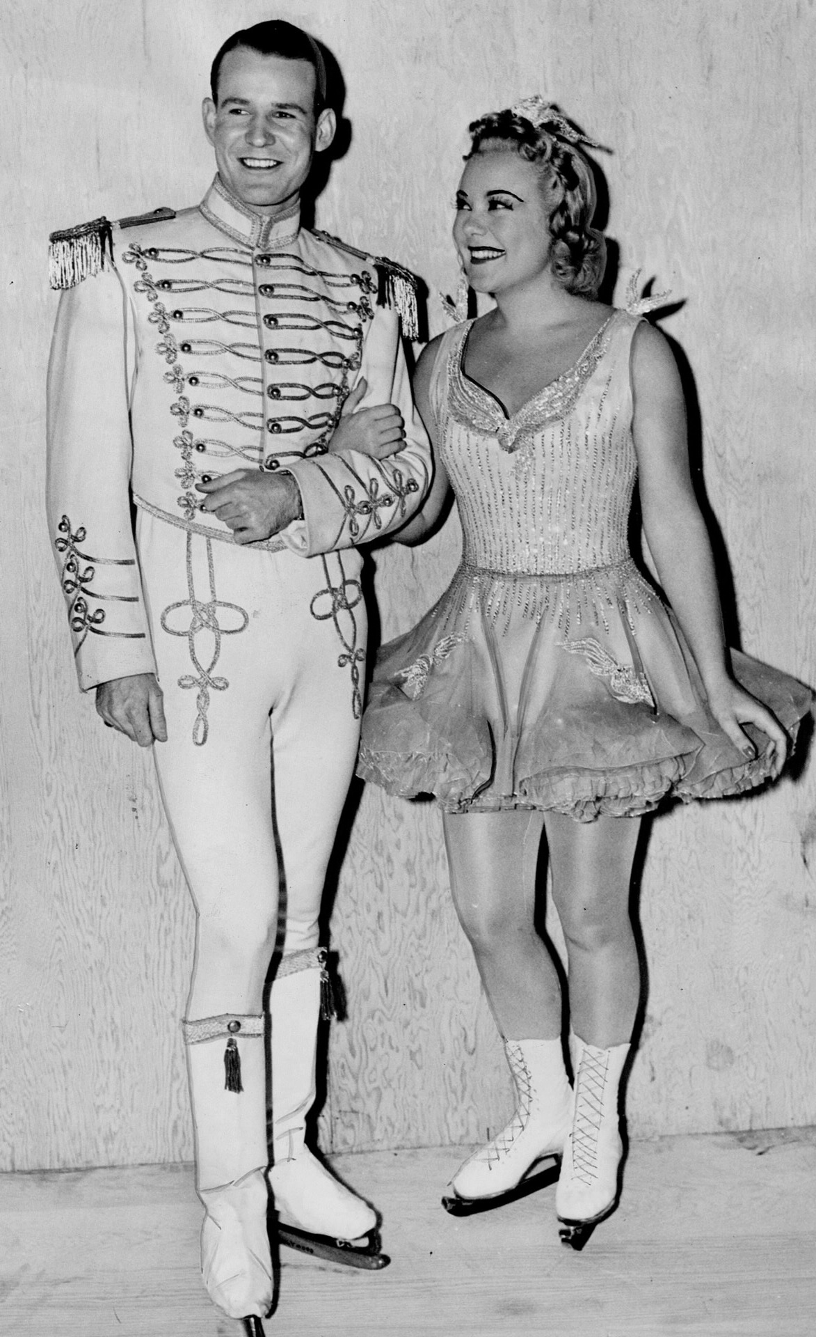 Toronto skater welcomed home by cheering thousands: Toronto skating enthusiasts thronged Maple Leaf Gardens last night to see Stewart Reburn (LEFT) teamed with the internationally known skating star, Sonja Henie (RIGHT) in a carnival with 100 in the cast. So great an ovation did the thousands of spectators give the couple, they were obliged to reappear for eight encores. It was the first time Reburn had skated in his native city since turning professional to become Sonja Henie's partner.